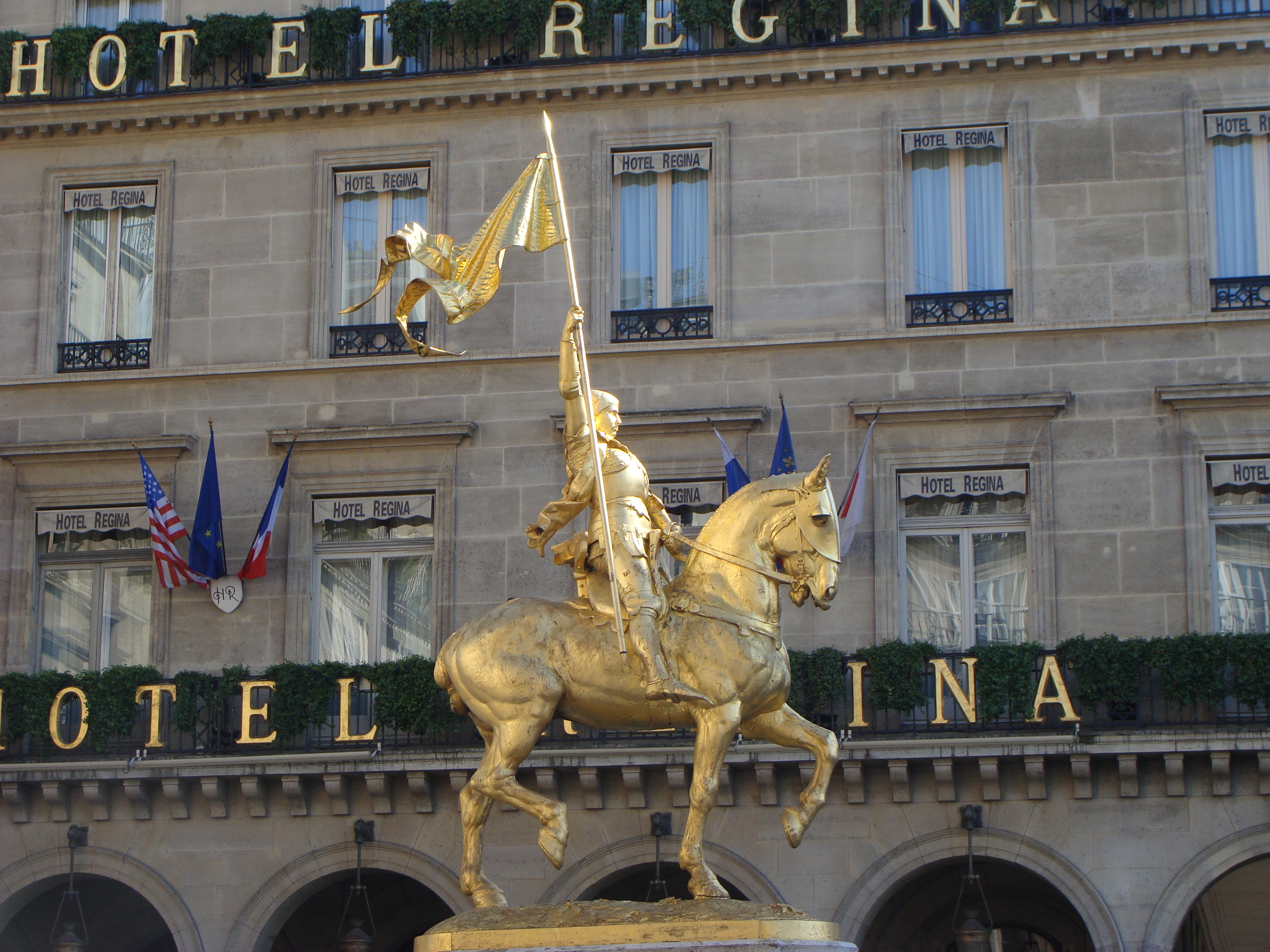 Statue of Jeanne d'Arc in Paris, Place des Pyramides